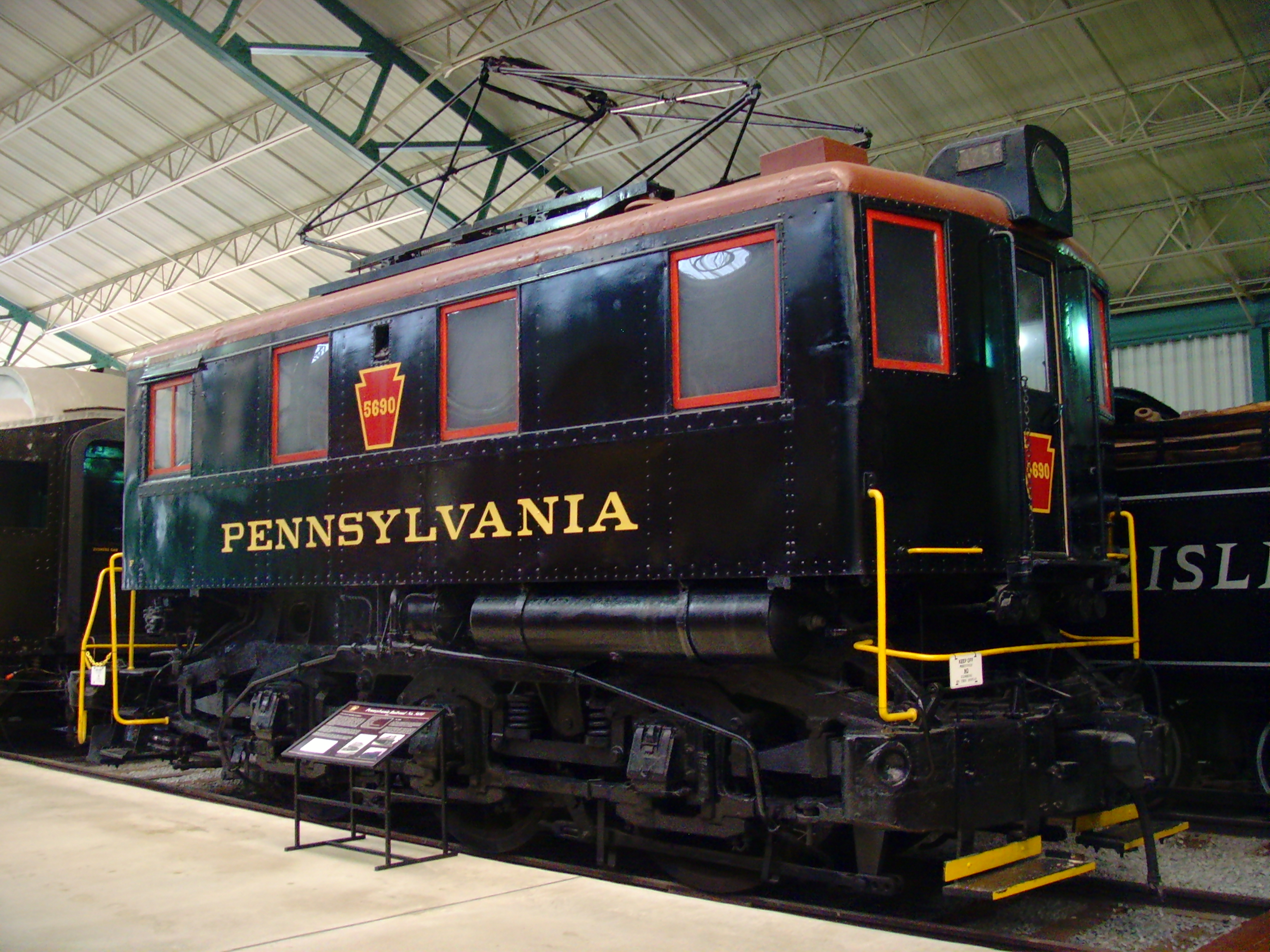 0380 Strasburg - Railroad Museum of Pennsylvania. Pennsylvania Railroad class B-1 electric locomotive #5690.